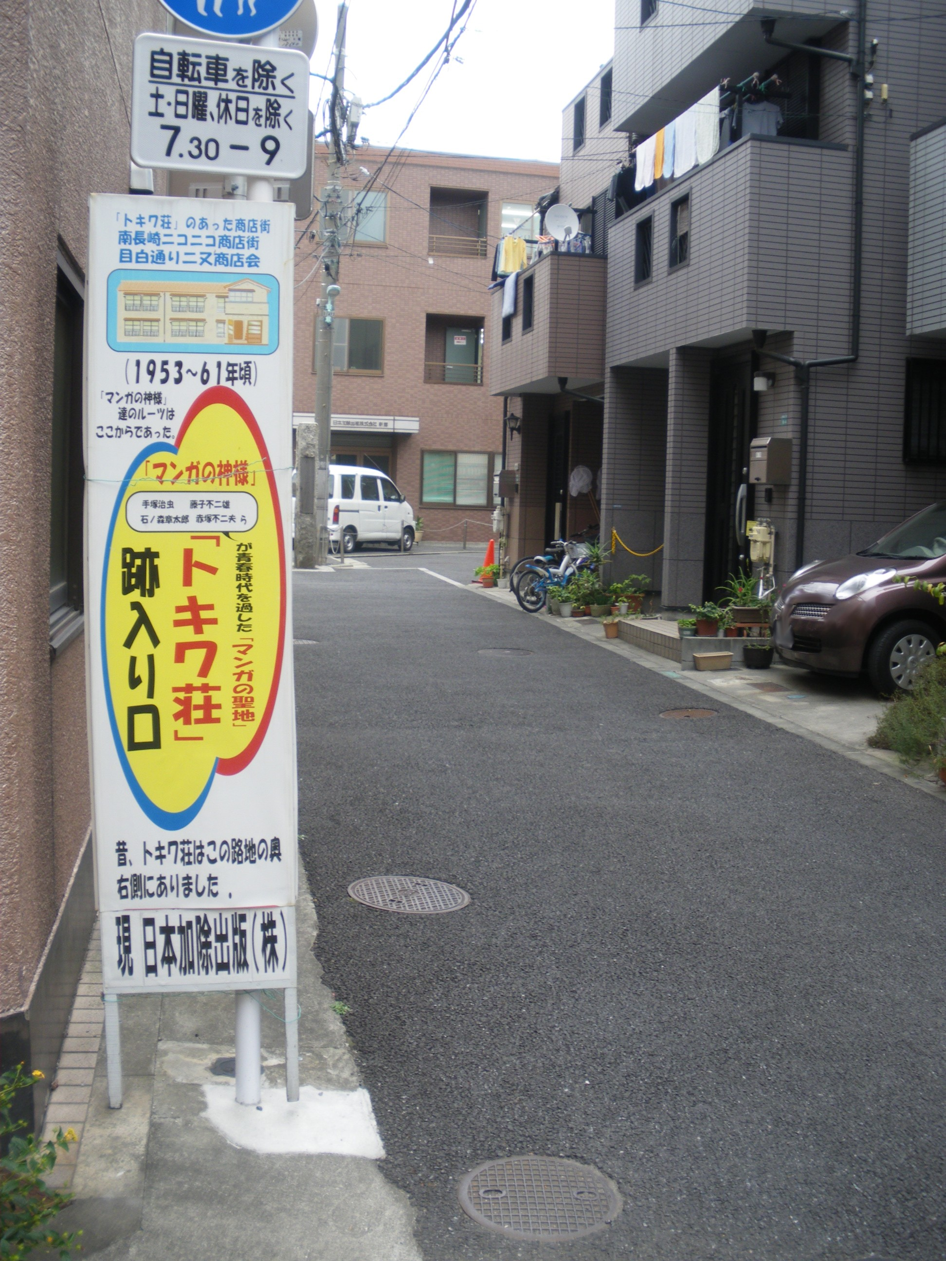 Former site of Tokiwaso apartment house(Minaminagasaki,Toshima,Tokyo)